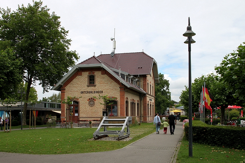 this image shows the former station of Unteruhldingen, the railway line from Oberuhldingen-Mühlhofen to Unteruhldingen was closed 1950.